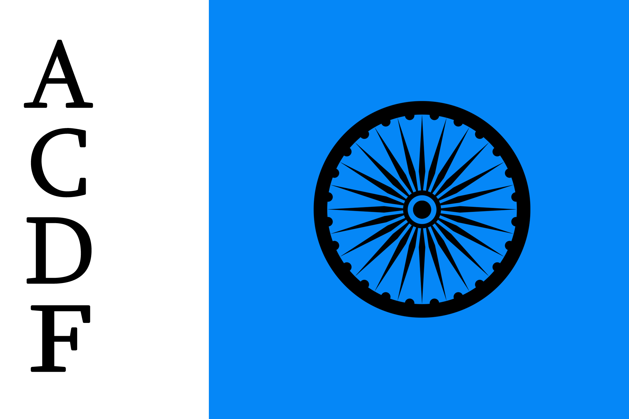 flag of anti corruption democratic front (ACDF) kerala